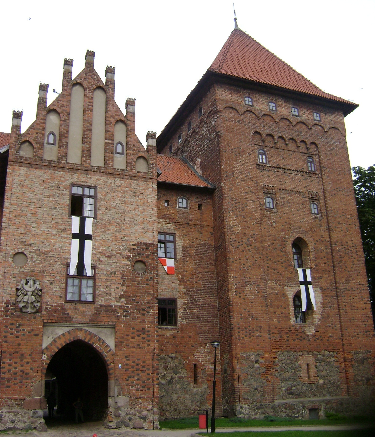 Poland. Nidzica. Castle